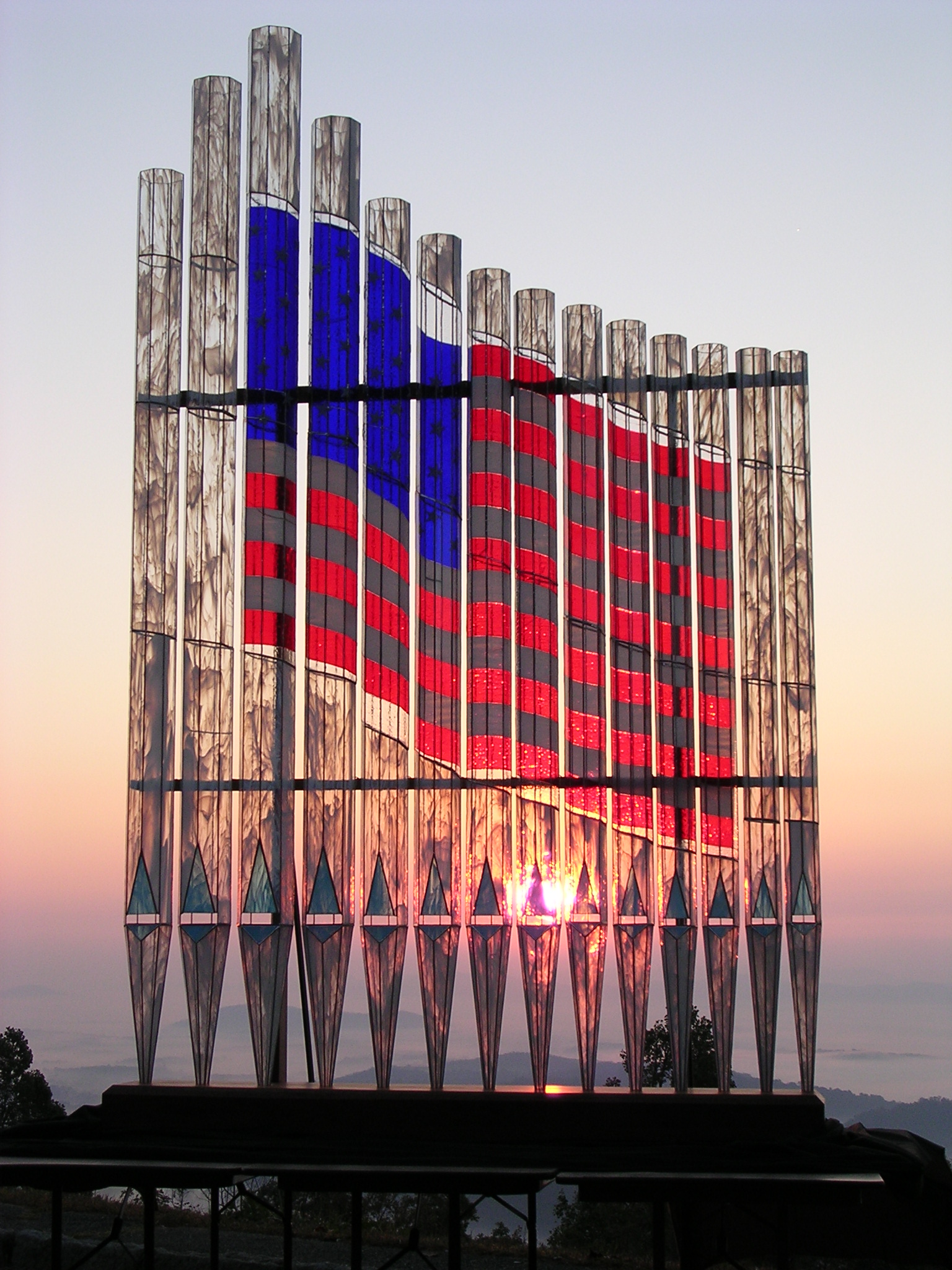 A photograph of a rank of glass pipes with the American Flag woven into the design. These pipes were made by Xaver Wilhelmy in response to the events of September 11th and were part of a Memorial Proposal for Ground Zero. The idea was to make a glass pipe to represent each fallen individual, to give them a voice. The Wilhelmy American Flag Glass Pipe Organ at Sunrise on the Blue Ridge Mountains of Virginia. The glass pipes shown were created by Xaver Wilhelmy, the first pipe organ builder in the world to successfully create working glass pipes.